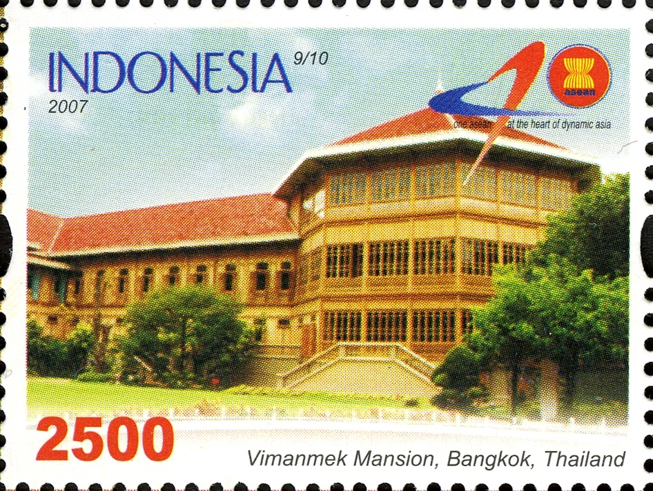 Stamps of Indonesia